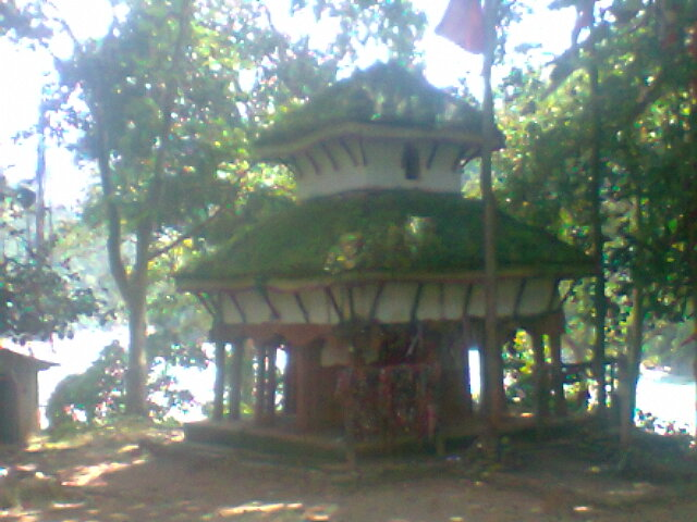 Siddheshwar Mahadev (Dungeshwar)